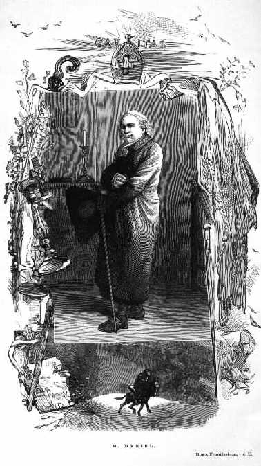 Bishop Myriel from Les Miserables depicted by Gustave Brion